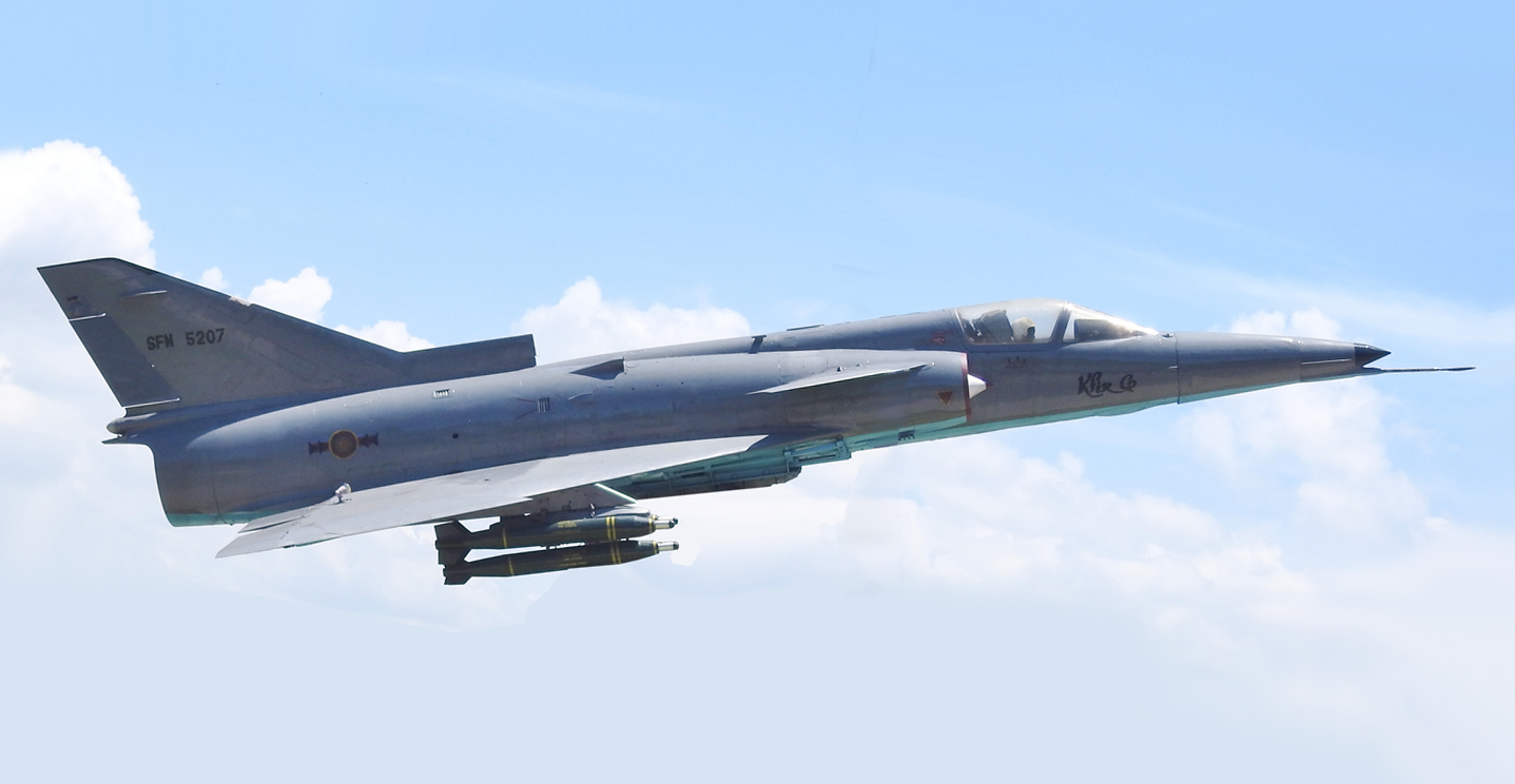 Sri Lanka Kfir modified for flight